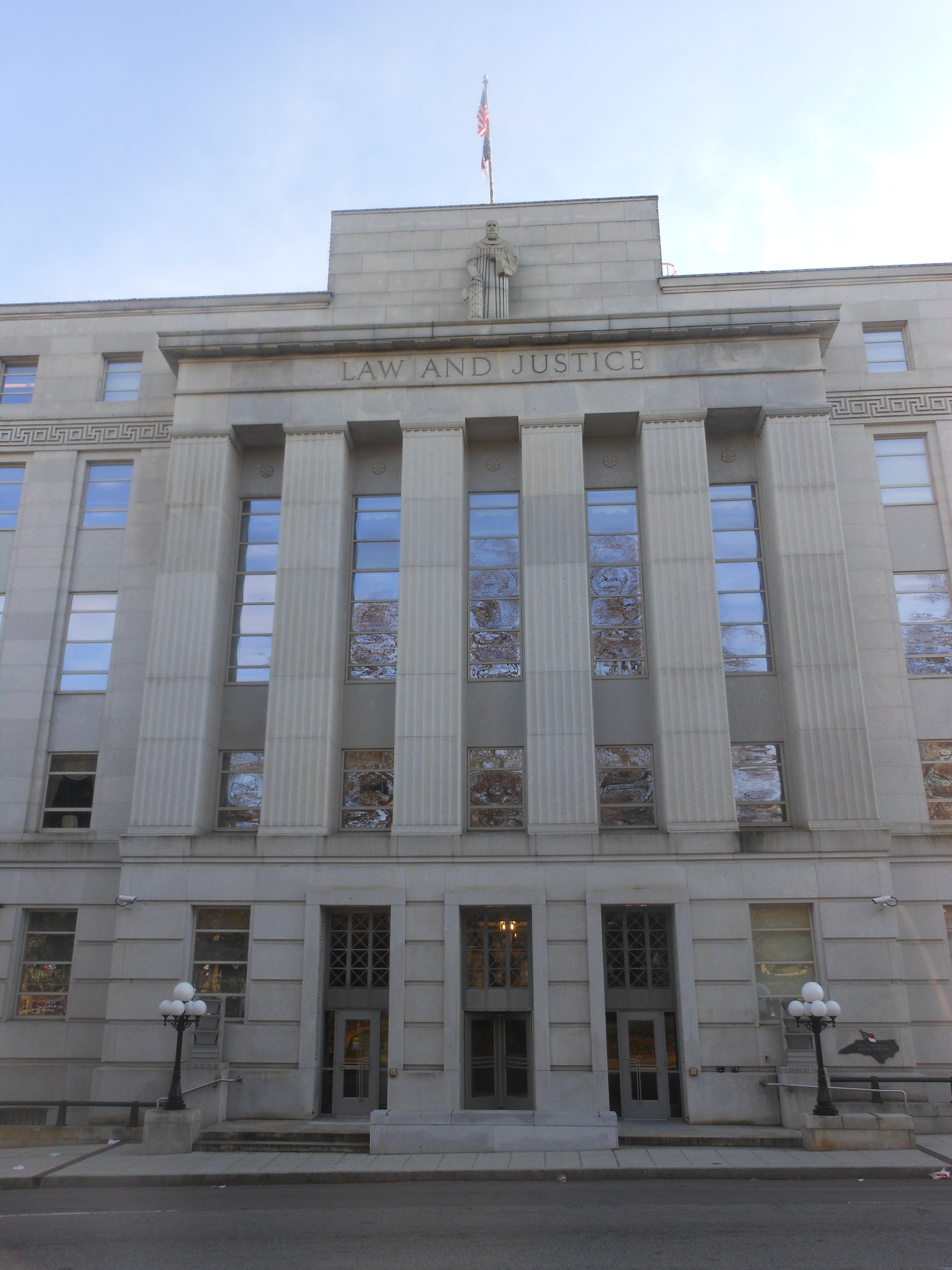 North Carolina Supreme Court building in Raleigh, NC